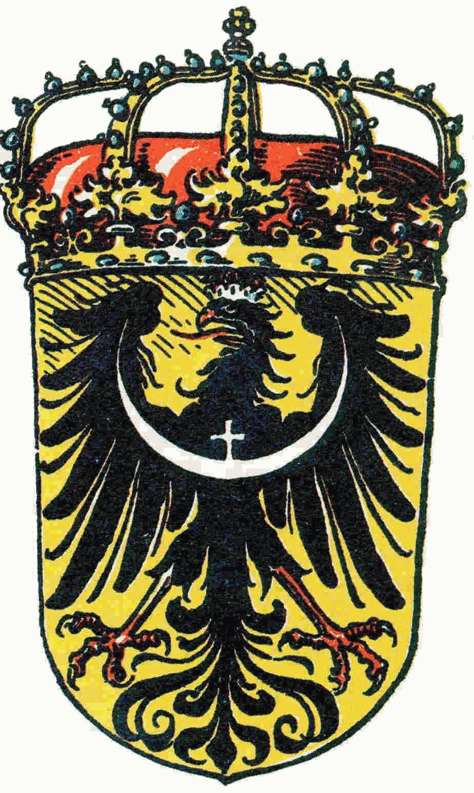 Coat of Arms of the prussian province of Silesia